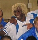 Urbain Some in 2006 with Ottawa St. Anthony Italia